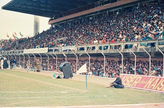 Torcida do Avaí. Ressacada lotada em 1988